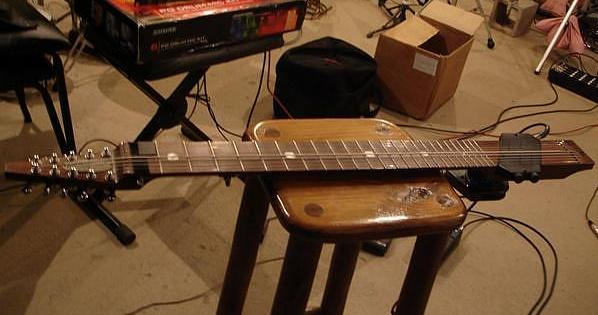 Ironwood Chapman Stick build in the 80´s, picture taken by Diego Souto